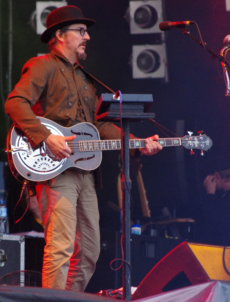 Les Claypool from Primus on Open'er 2011, Gdynia, Poland